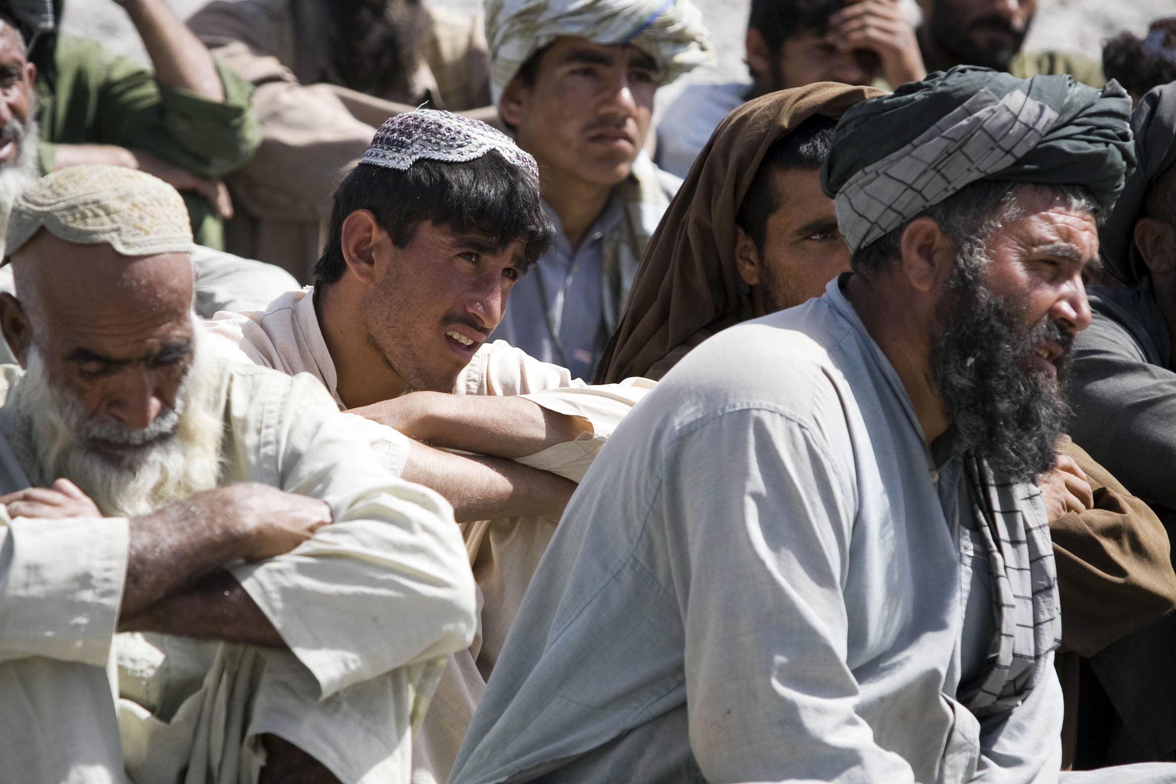 Men from Nawa listen to Col. Ali Ahmad, an Afghan National Army cultural and religious advisor, speak during Nawa’s first-ever ANA recruiting and information event April 12. More than 60 people attended the event at Patrol Base Jaker to hear about the benefits of military service.